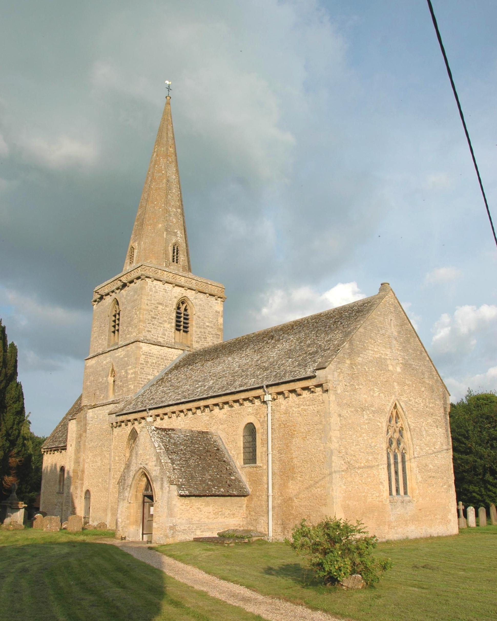 Church of England parish church of St Peter, Cassington, Oxfordshire: view from the north-west